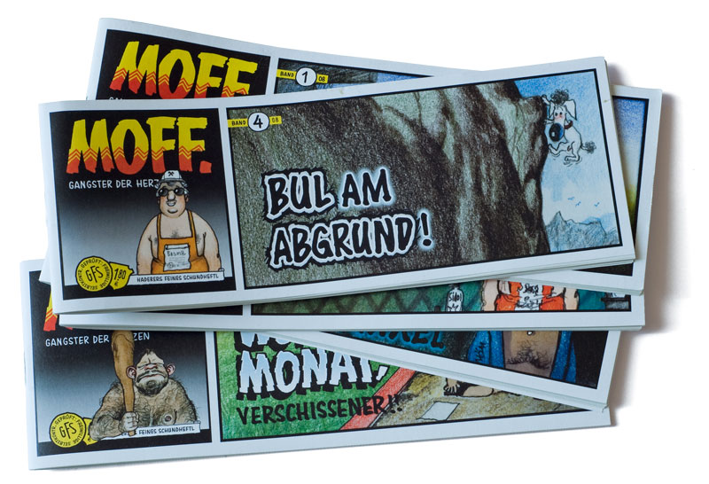 some issues of the comic MOFF.